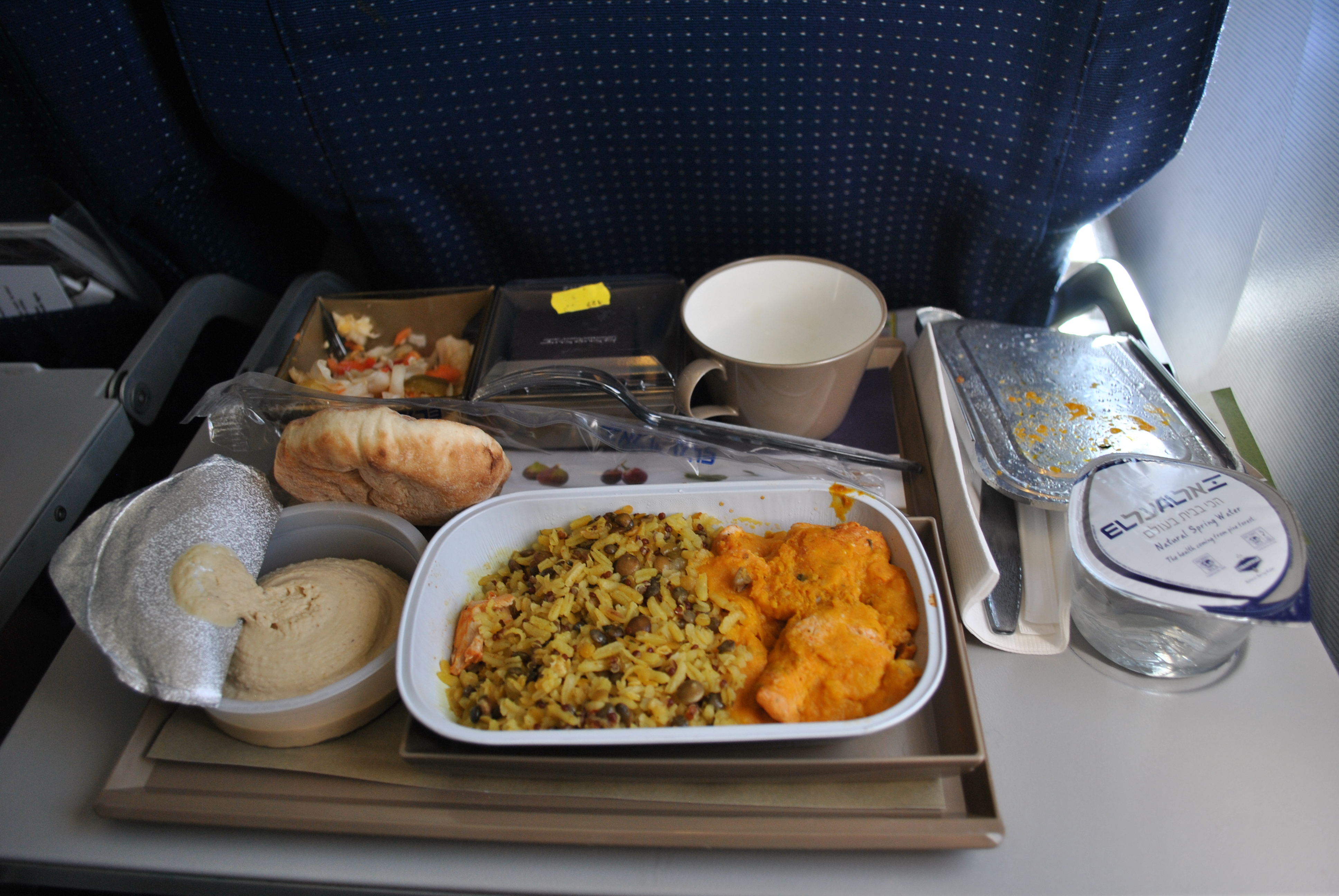 Inflight Airline meal — during an El Al flight Paris → Tel Aviv.